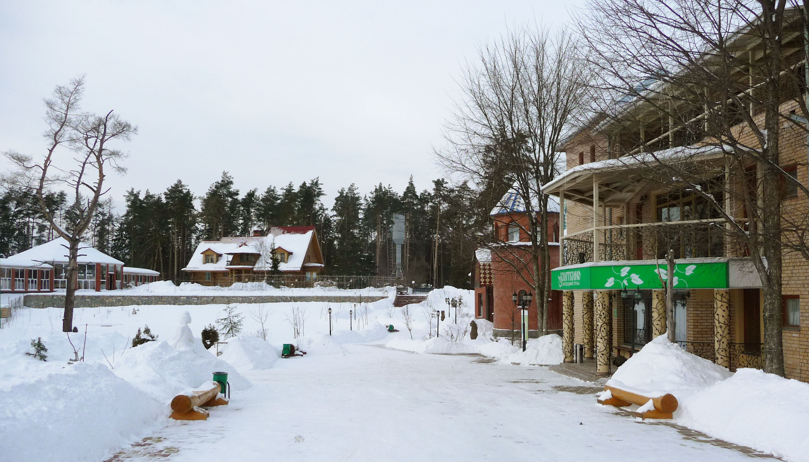 Hotel Ulitkino. The village of Ulitkino, Shchyolkovsky District, Moscow oblast, Russia.